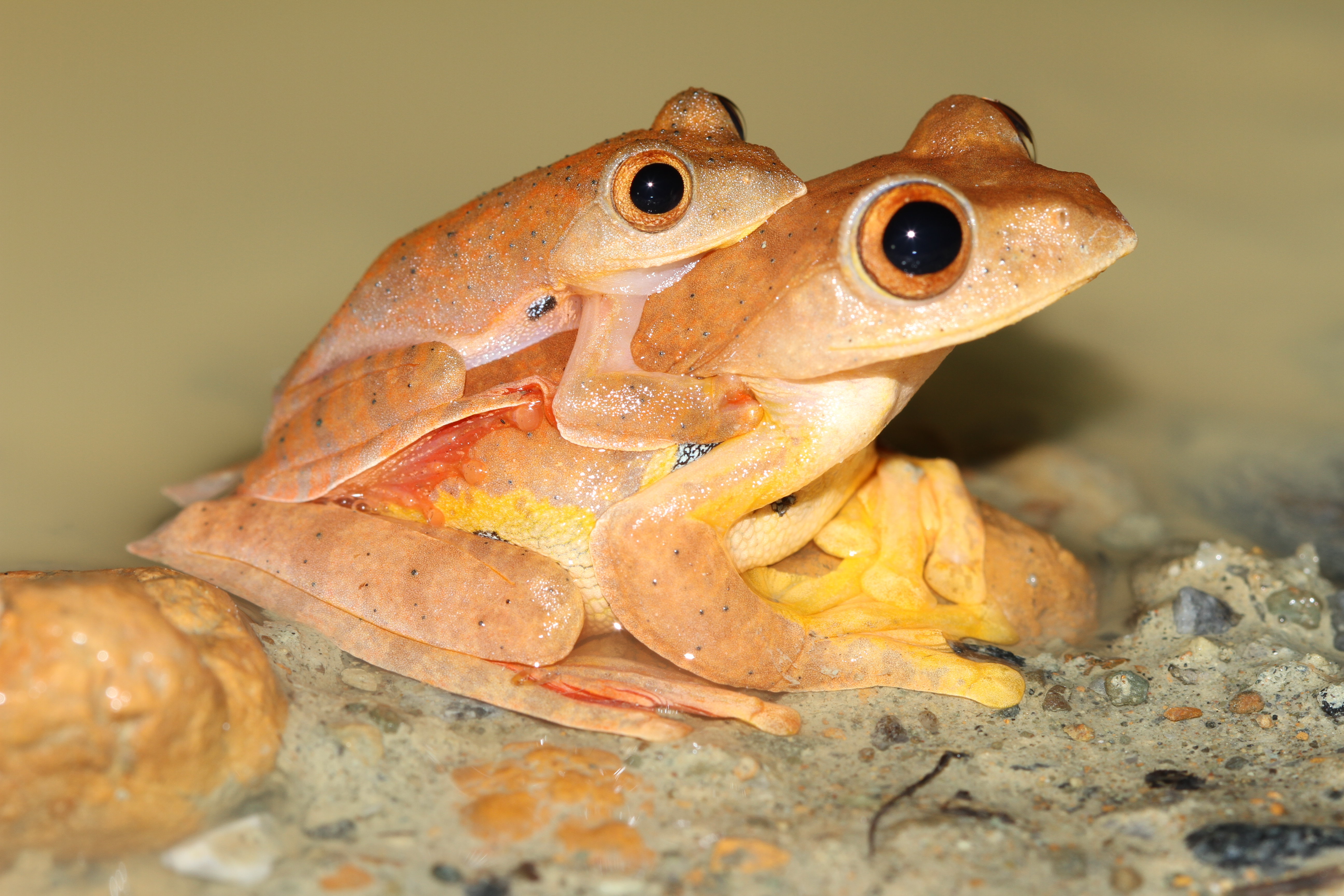 frog from india